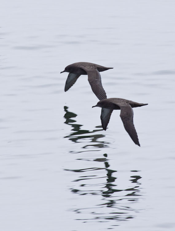 Two Sooty Shearwaters flying near Avila Beach, California, USA.